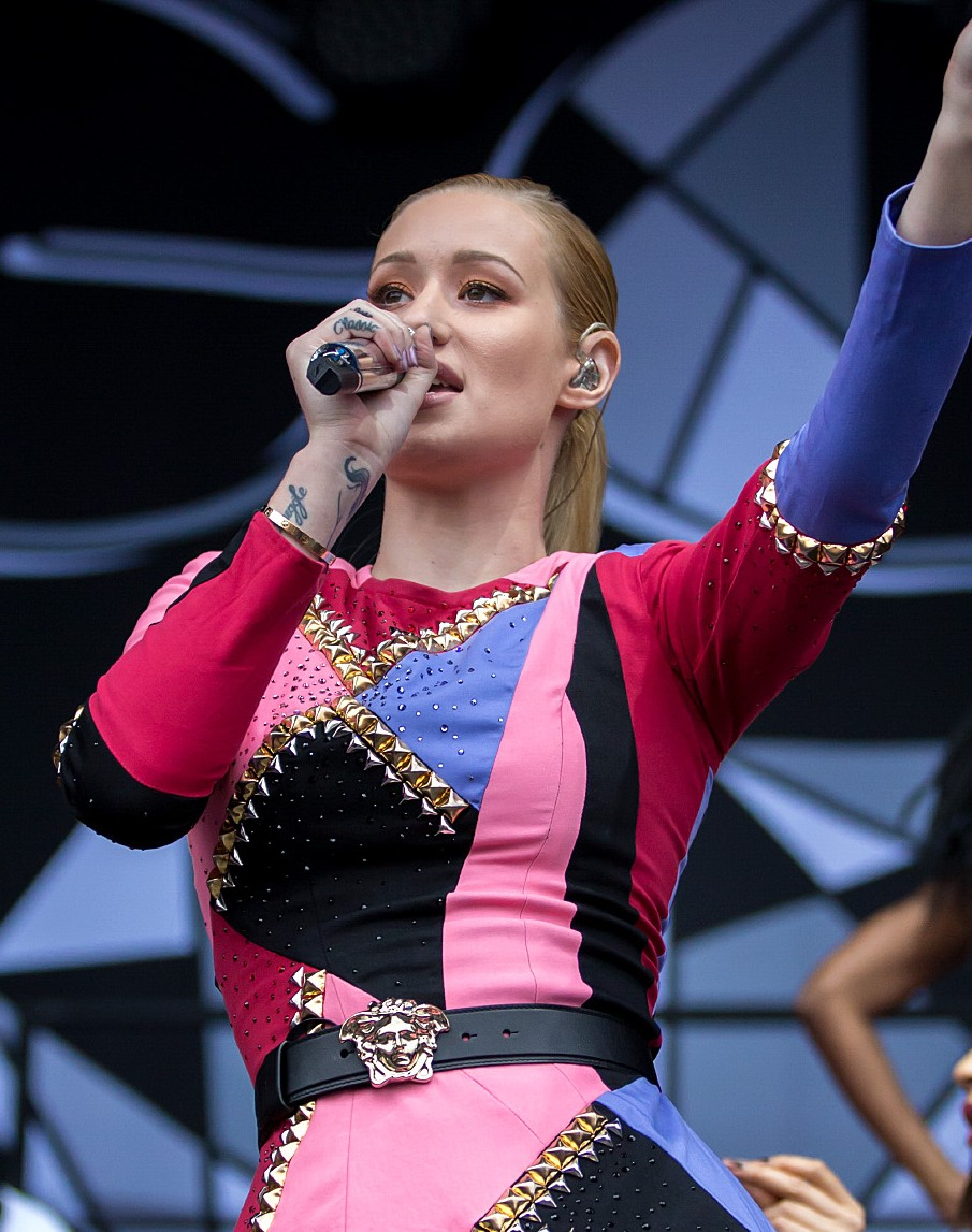 Iggy Azalea at the 2014 ACL Music Festival